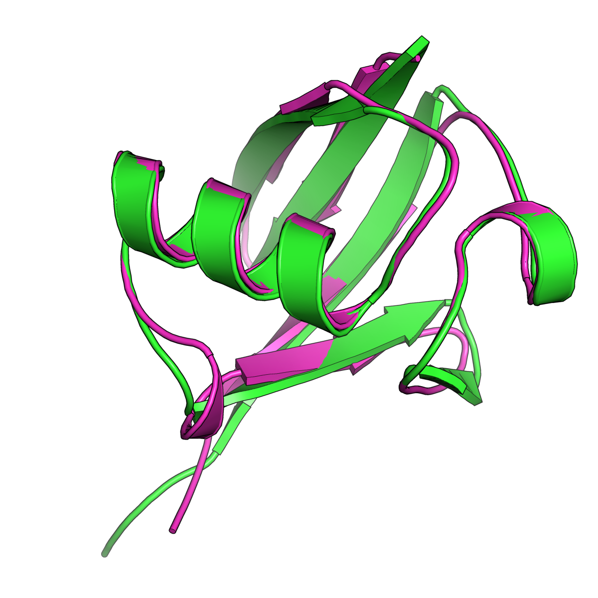 Superposition of ubiquitin (PDB: 1UBQ​, green) and NEDD8 (PDB: 1NDD​, magenta) illustrating their structural similarity. Rendered using PyMOL.